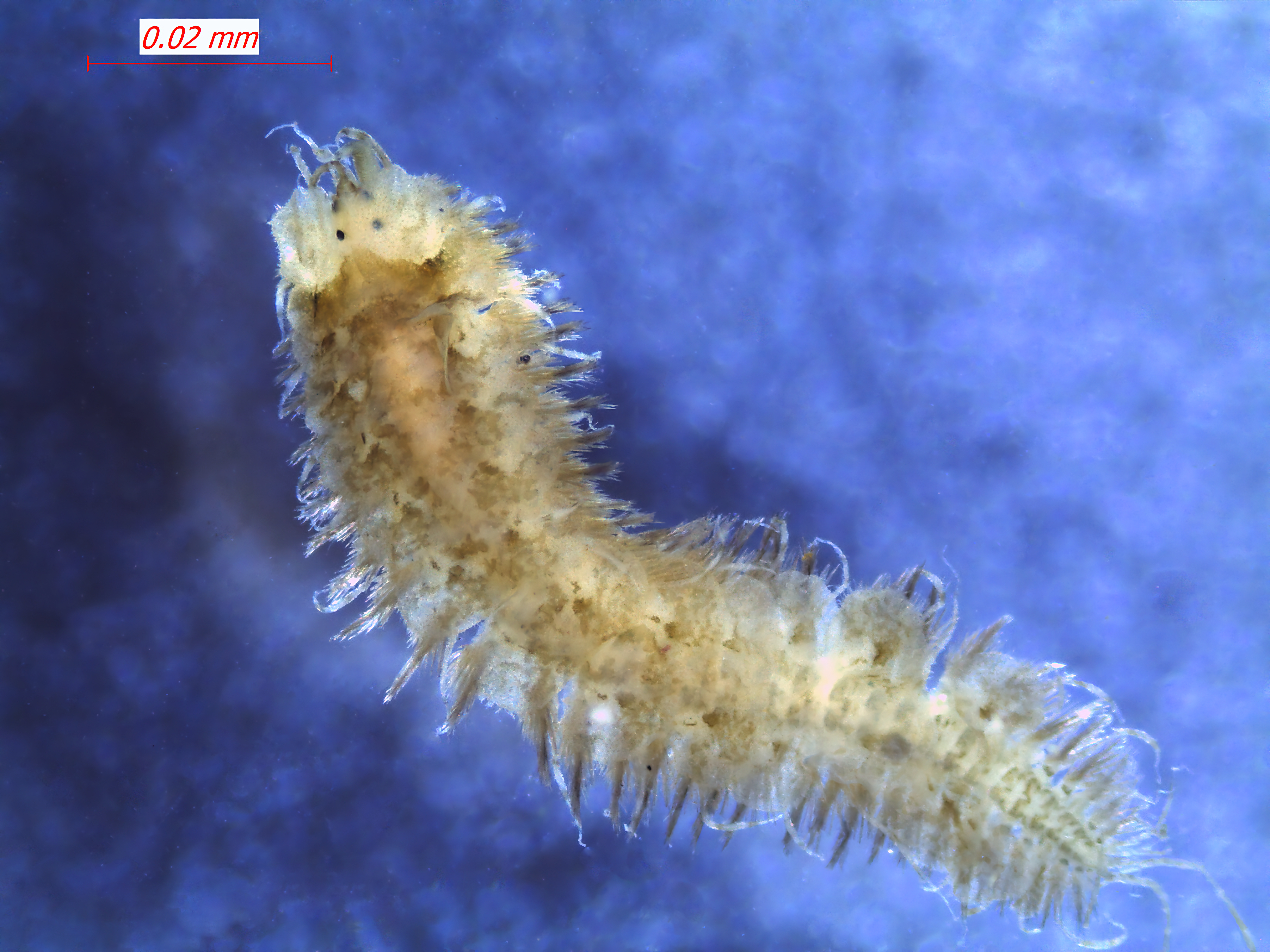 Collected from Puget Sound sediments and photographed by the Washington State Department of Ecology’s Marine Sediment Monitoring Team. For more information about this team’s work visit